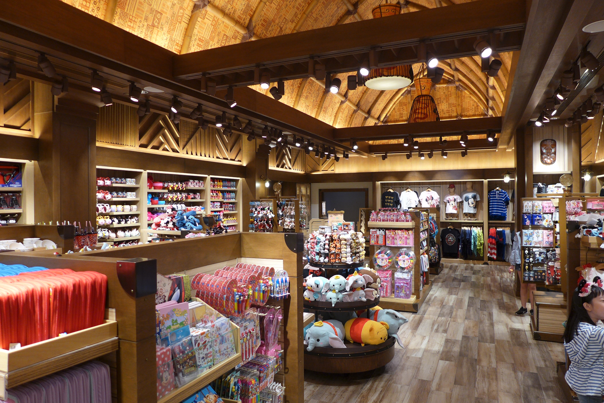 Disney Explorers Lodge Trading Post